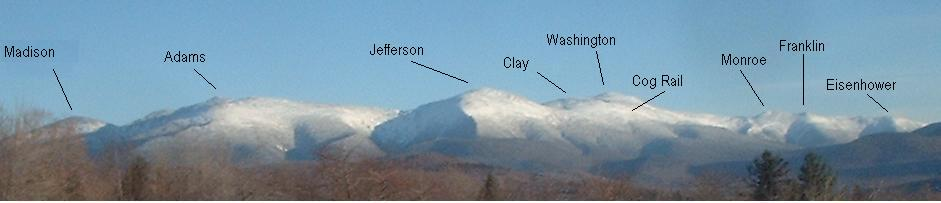 New Hampshire USA Presidential Range, winter, summits labeled, view from Starr King, NH.